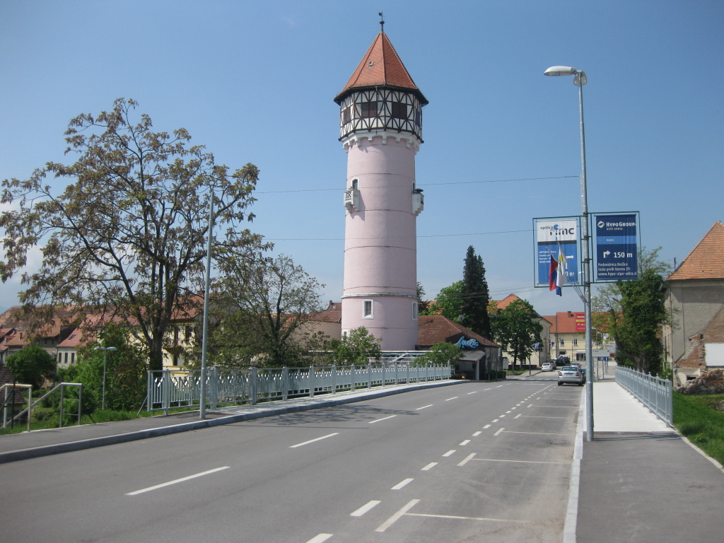 Street in Brezice, Slovenia, near border with Croatia.